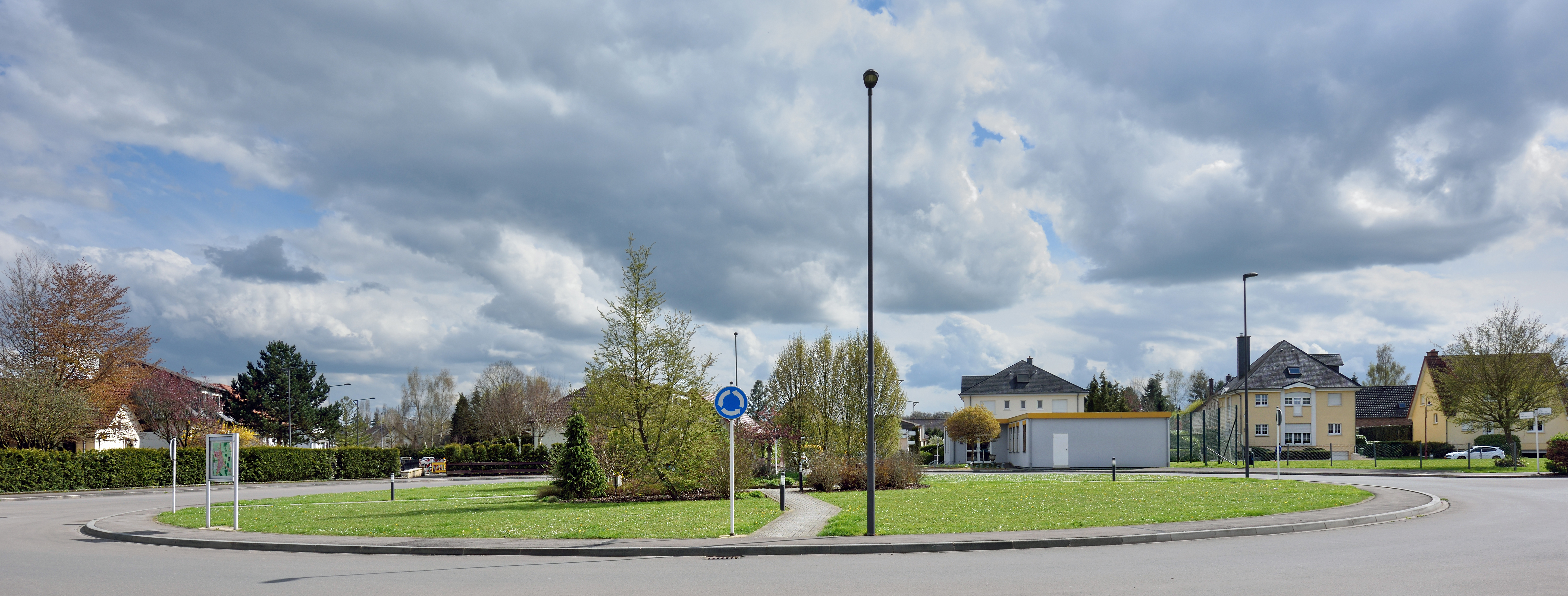 Luxembourg, Olm, Cité Kurt: roundabout Robert-Schuman.